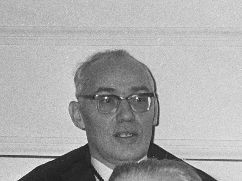 Hans Ussing in 1967, during the honorary doctorate ceremony at Leuven University